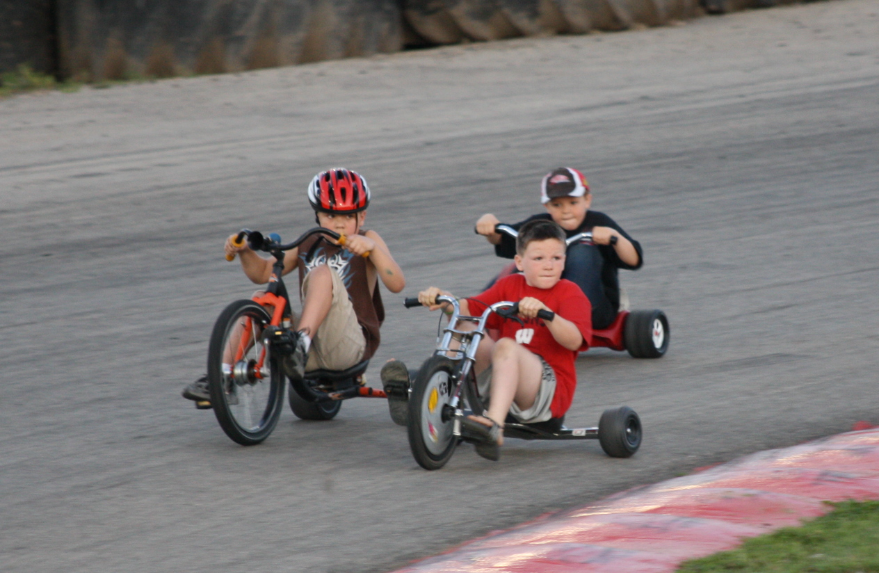 Children racing Big Wheel (tricycle) on the inner track at Jefferson Speedway between Jefferson, Wisconsin and Cambridge, Wisconsin.